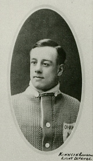 Ken Randall of Toronto Arenas hockey club ca. 1917–1918